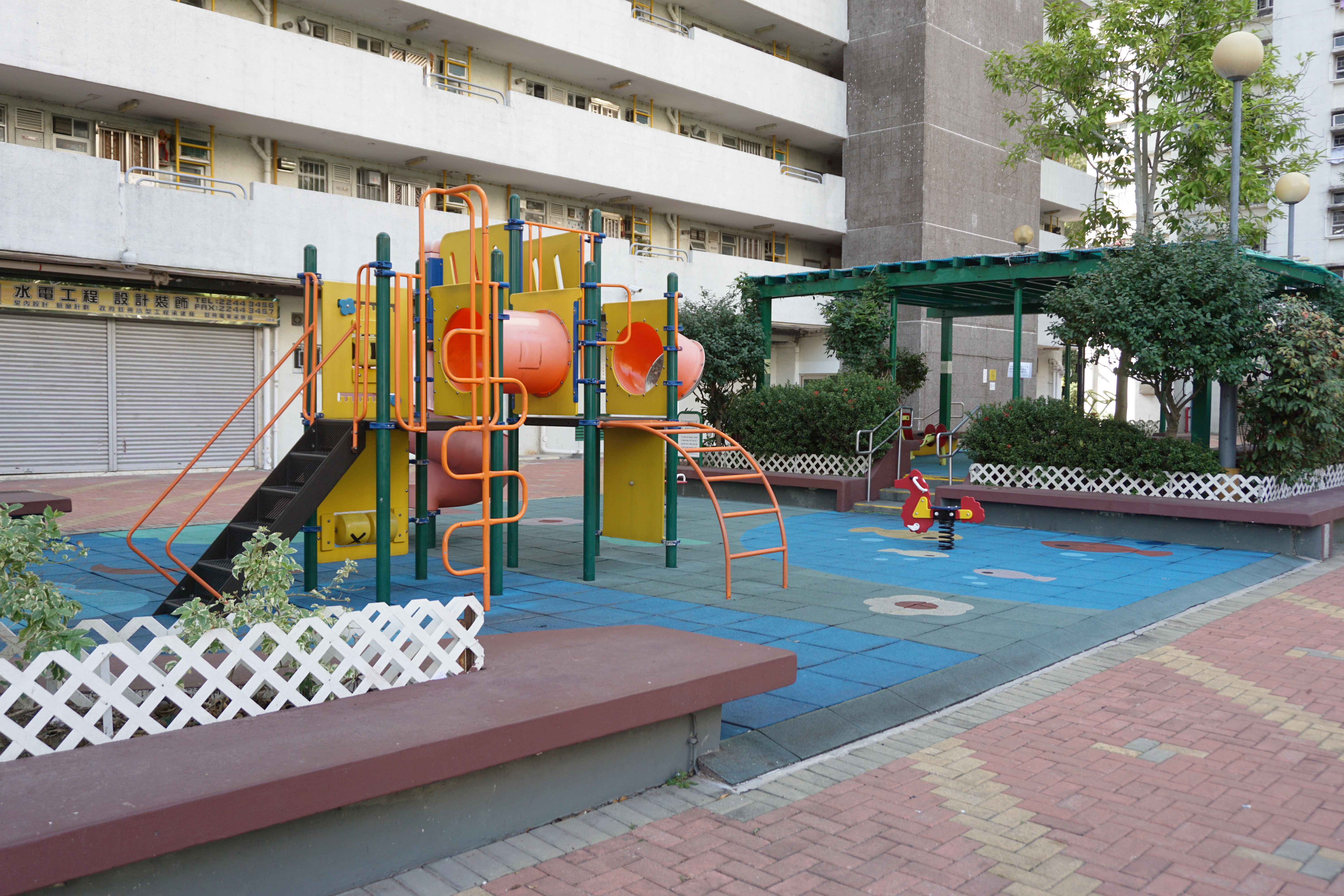 Cheung Wo Court in Kwun Tong, Hong Kong.